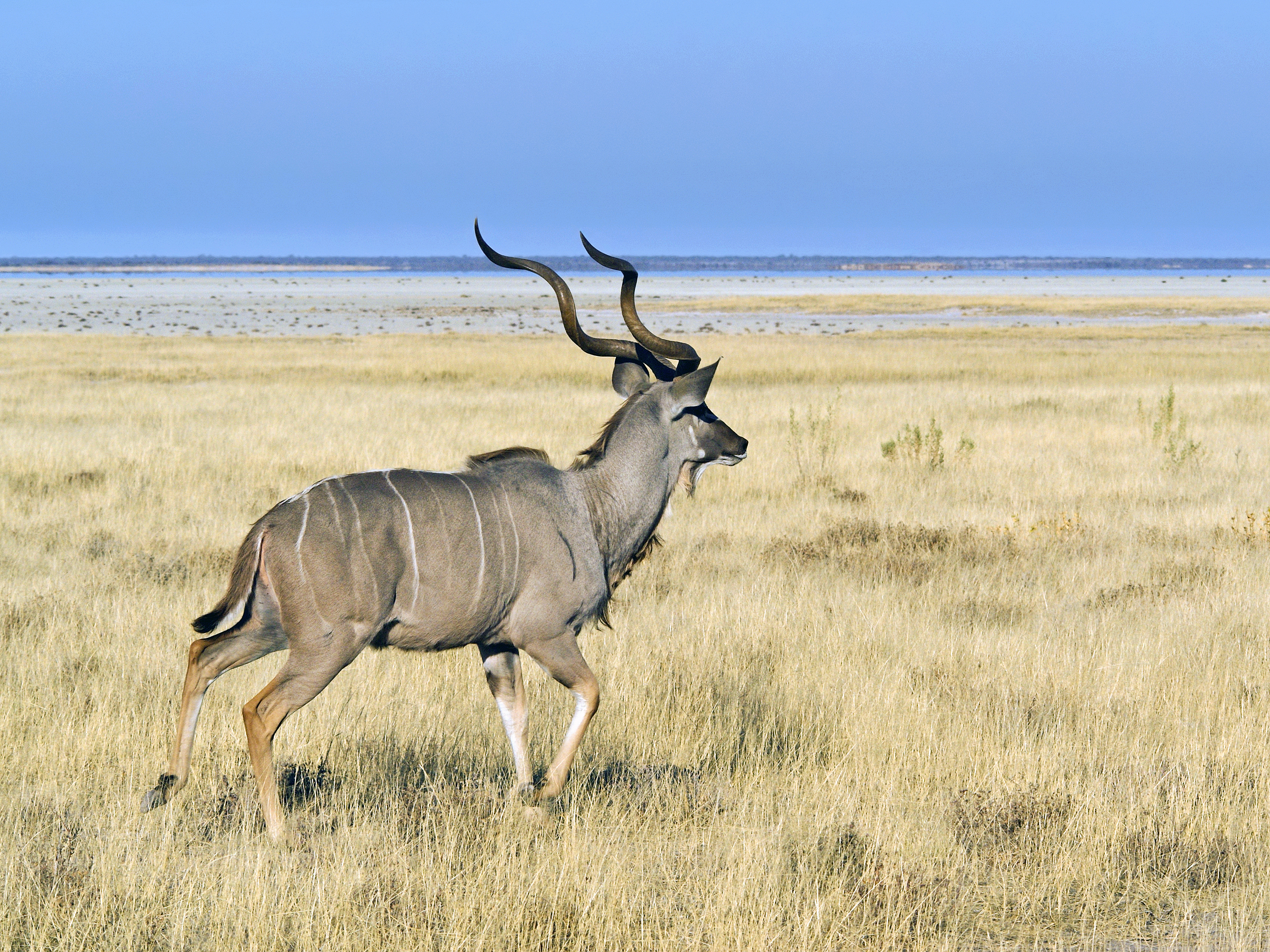 A Greater Kudu bull near Groot Okevi, Etosha National Park, Namibia